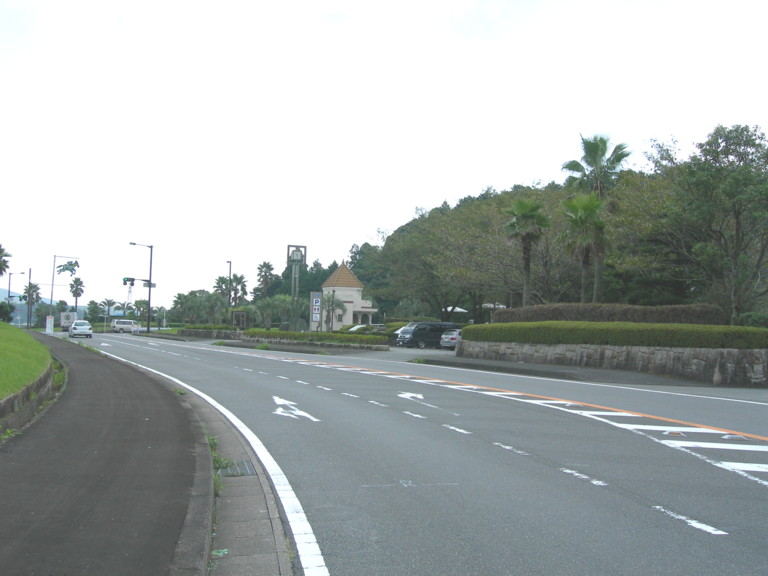 Mie prefectural route No.32, between Ise city and Shima city in Japan.